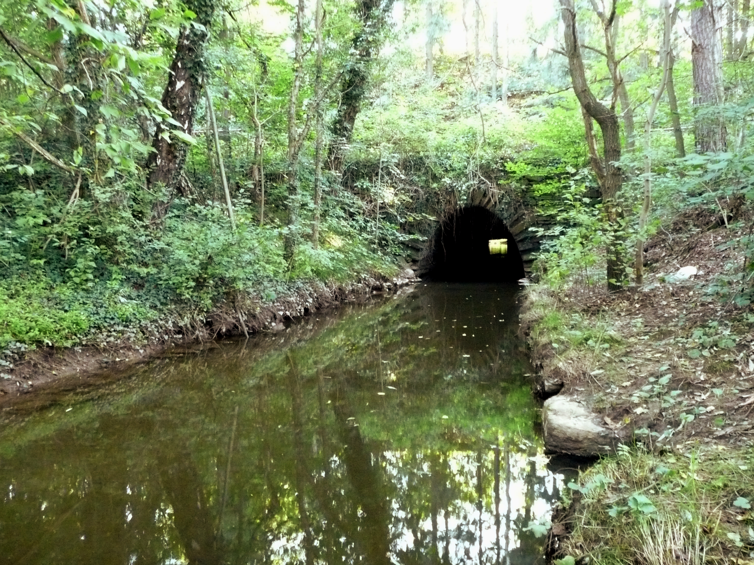 mine drainage tunnel of the Churprinzer Bergwerkskanal near Großschirma